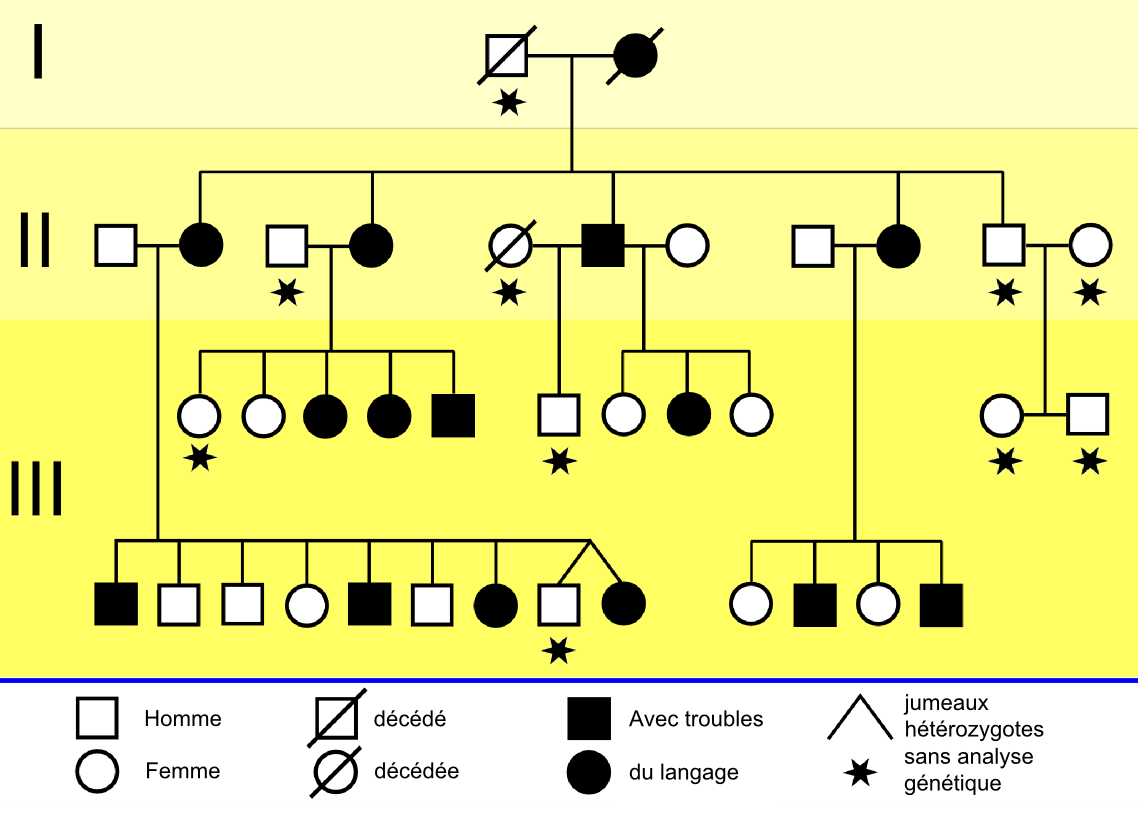 The pedigree of the KE Family from London. Some family members (shaded ones) have a genetic disorder on a gene named FOXP2.